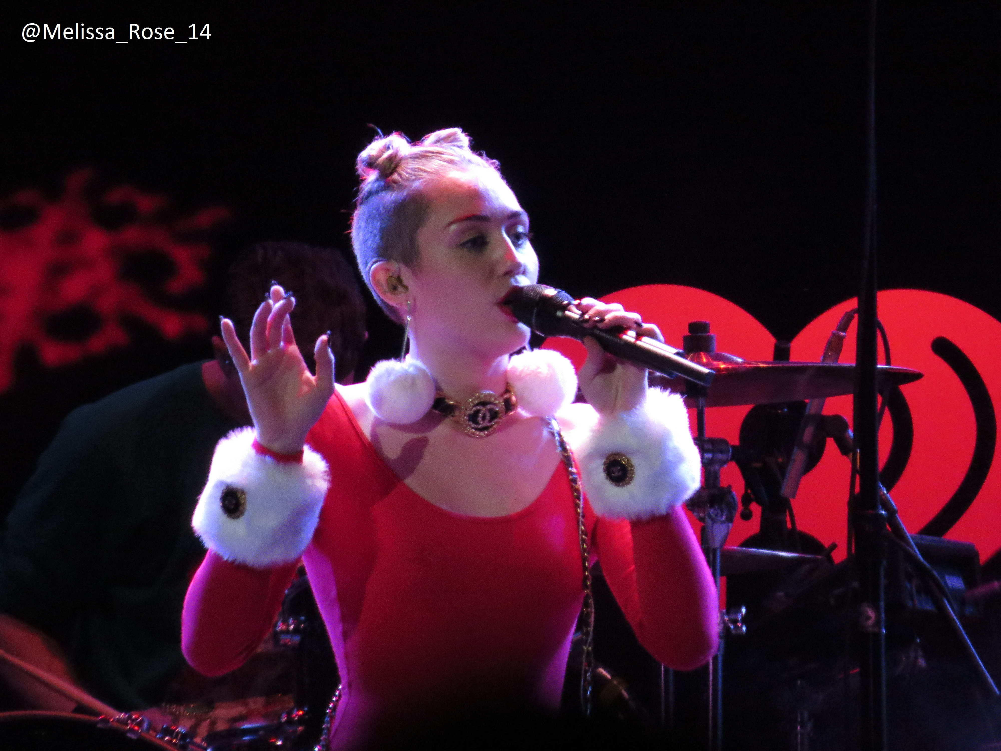 Miley Cyrus performing at 93.3 FLZA’s Jingle Ball 2013 on December 18 in Tampa, Florida.